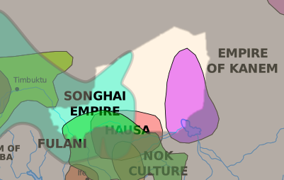 Map showing Medieval African civilizations, cented on the moder borders of Niger